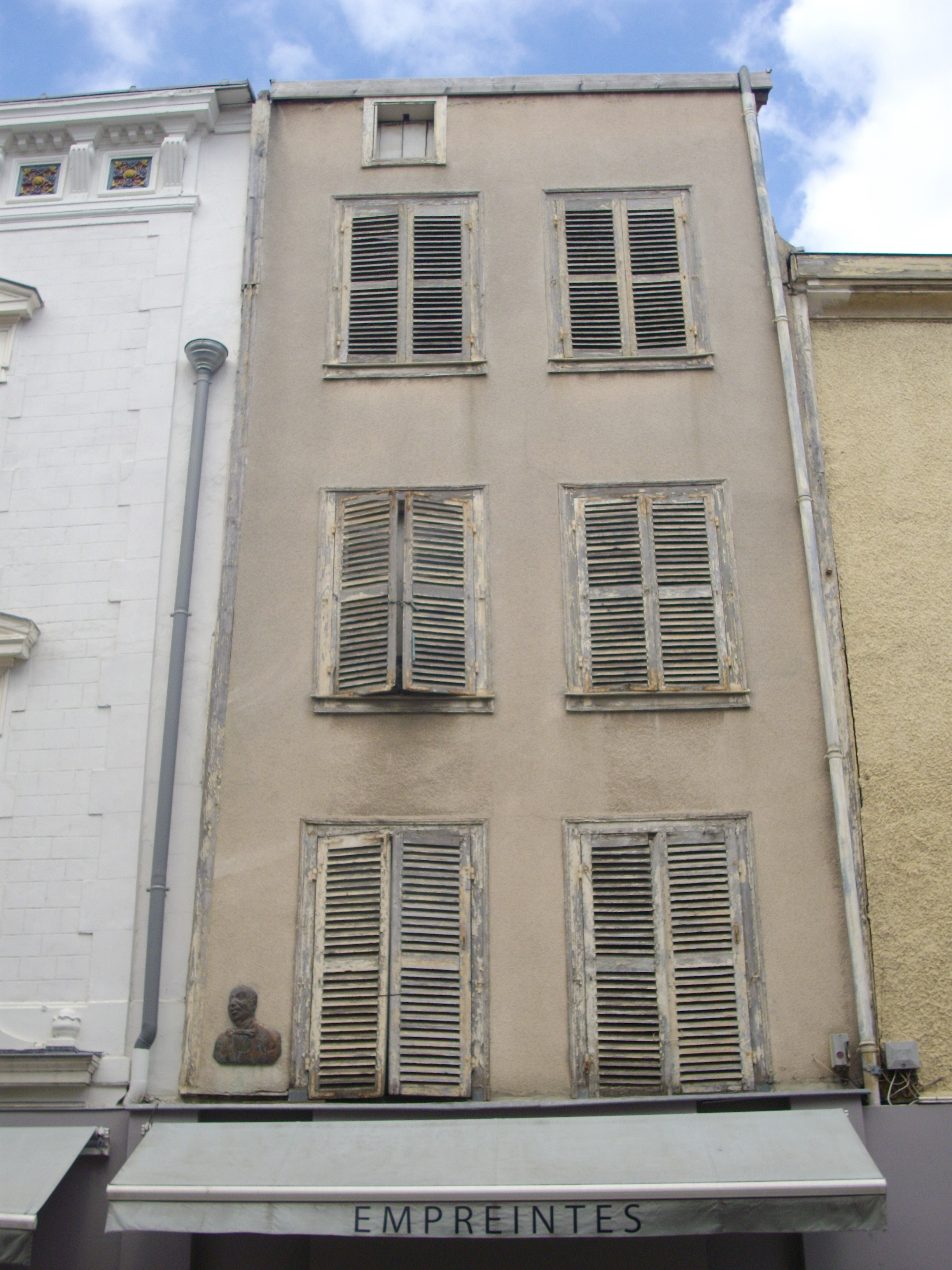 Birth house of Pierre Dac, 70 Marne street in Châlons-en-Champagne (Marne, France)